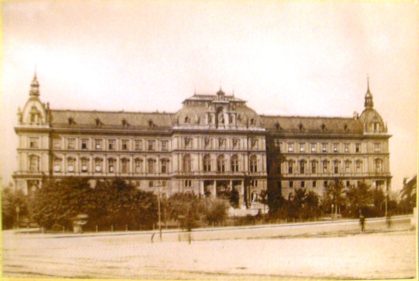 Postcard of the Justizpalast shortly after its completion in 1881.